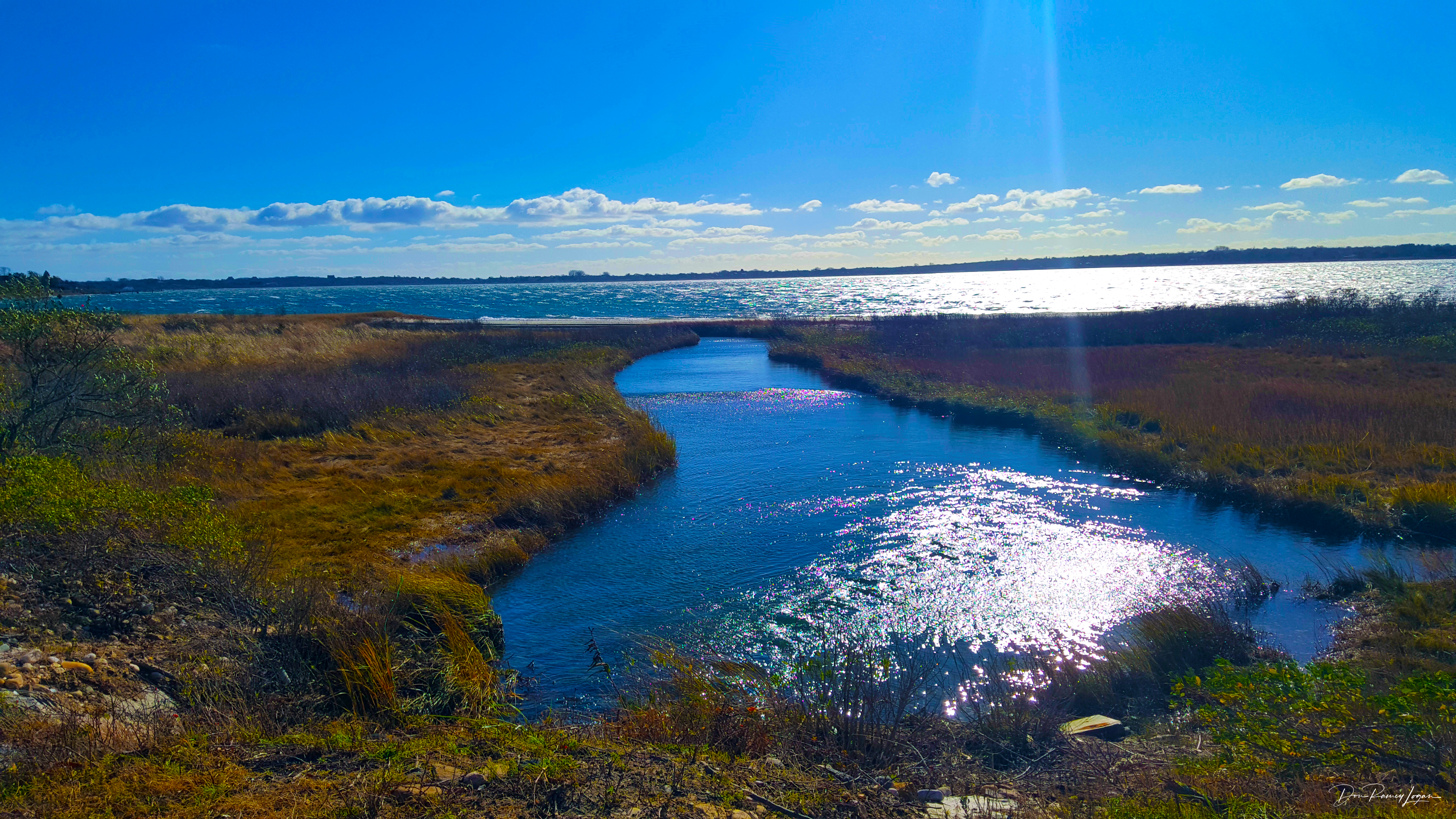 Lake Montauk by Don Ramey Logan